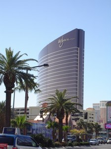 The Wynn Hotel, located on the Las Vegas Strip